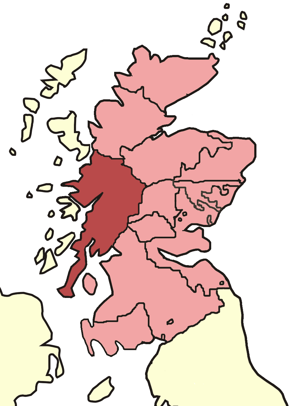 Diocese of Scotland in the reign of king David I. Based on William Forbes Skene's map of 1887.